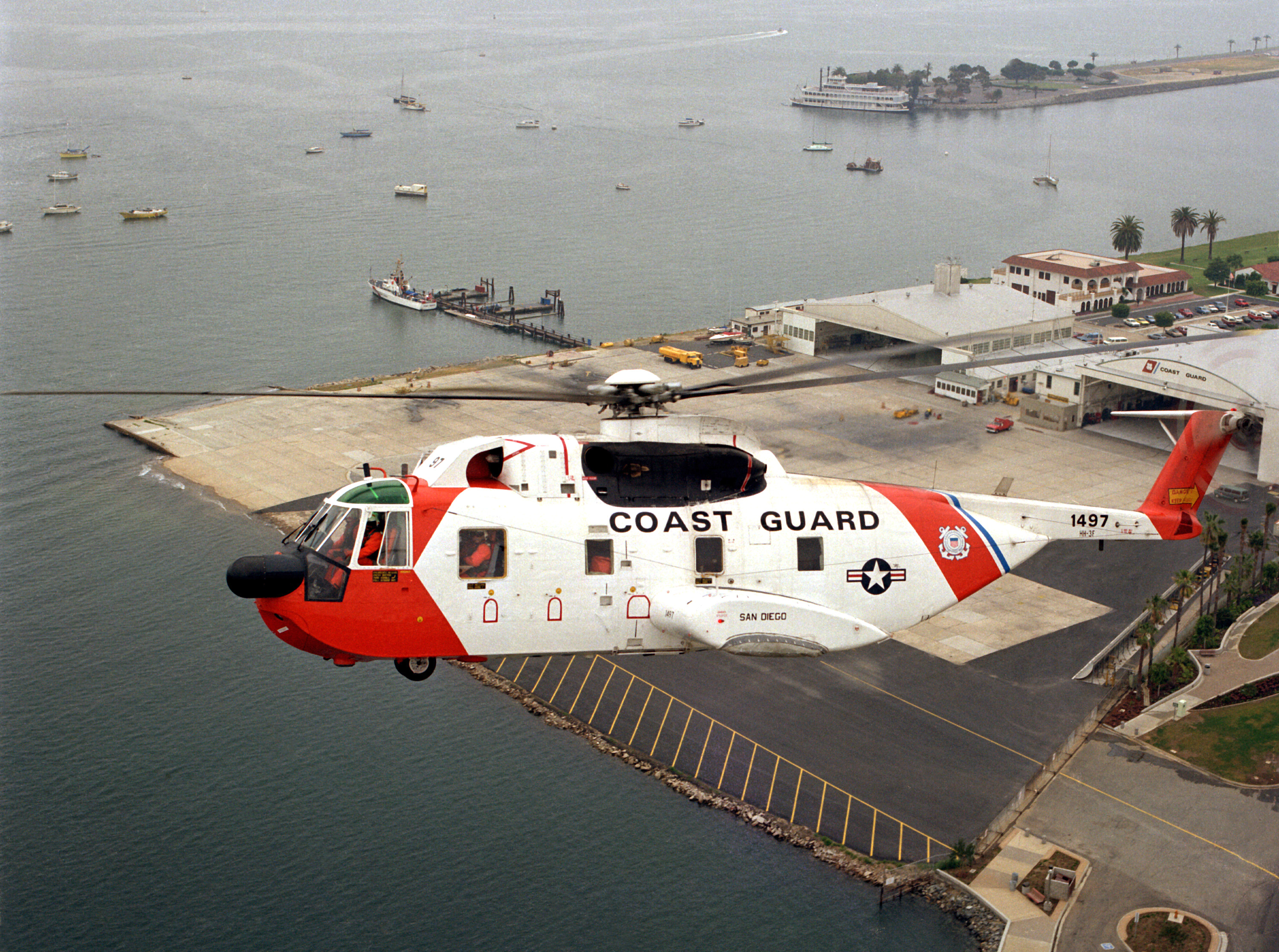 A U.S. Coast Guard Sikorsky HH-3F Pelican helicopter (s/n 1497) in flight over Coast Guard Air Station San Diego, California (USA), in 1981.